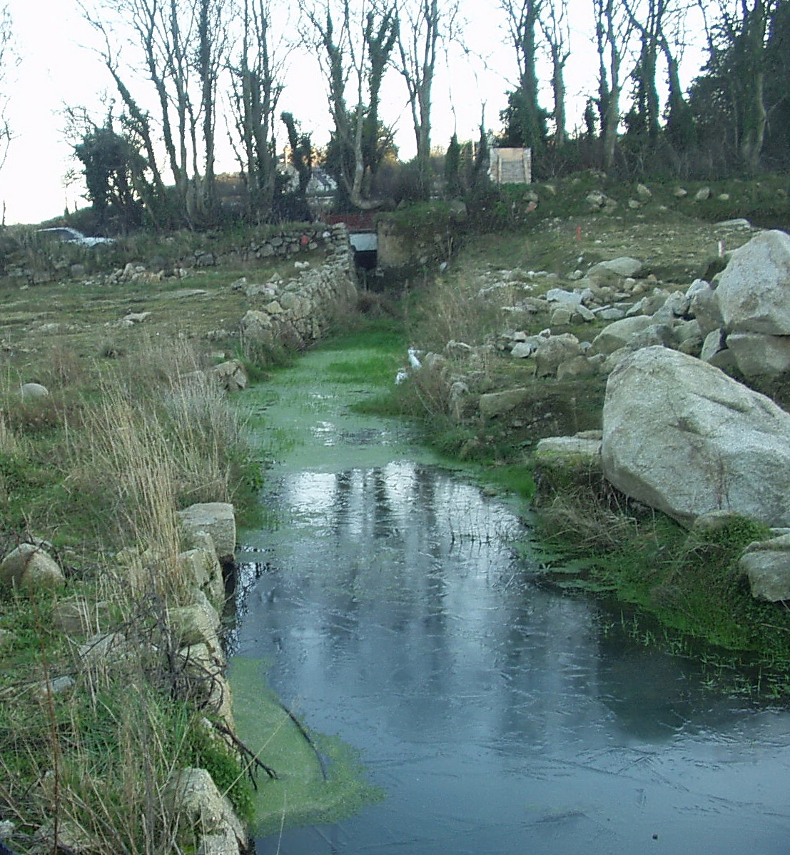 Drain at Carrickmines, Republic of Ireland